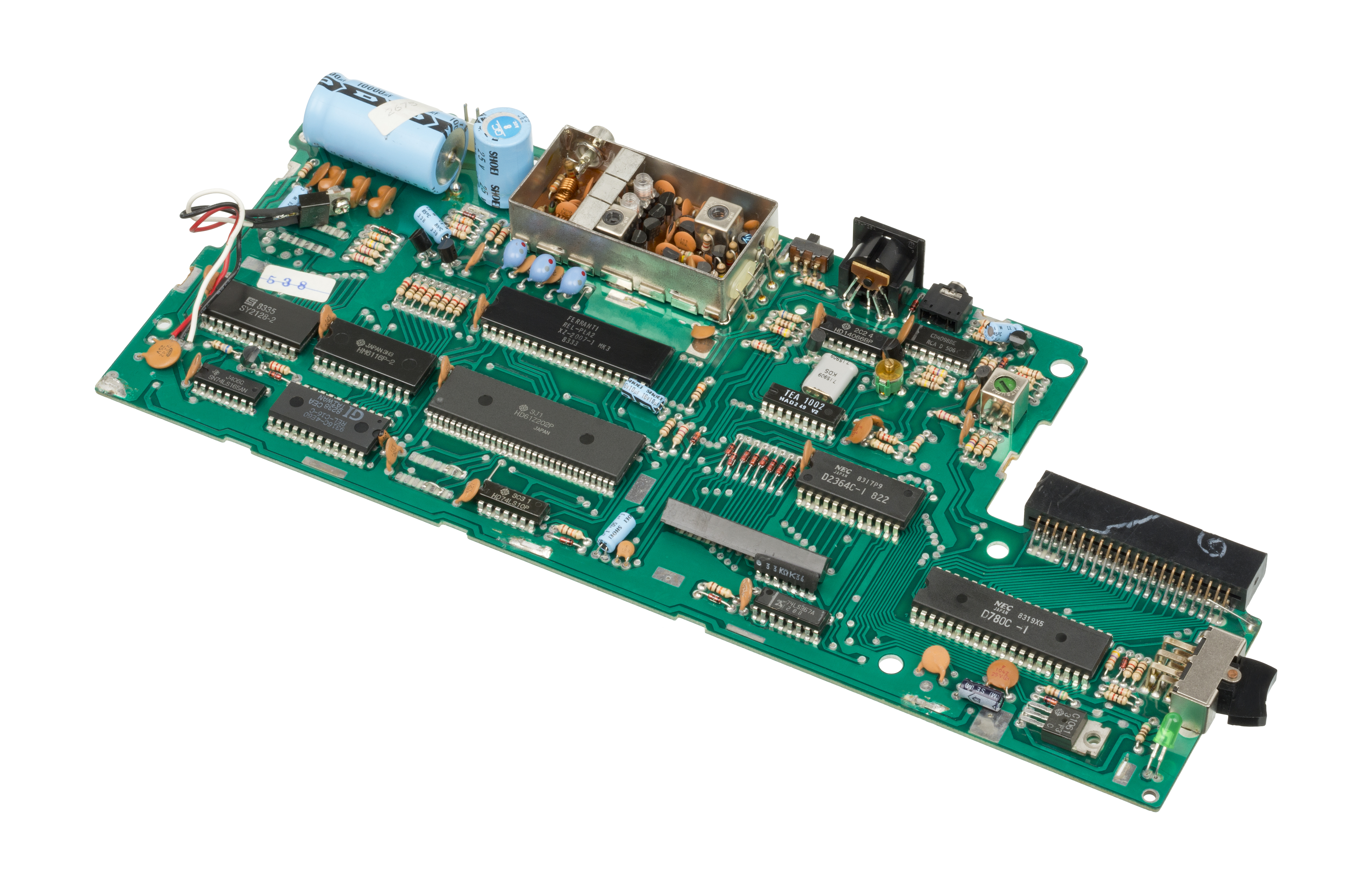 The motherboard of the Mattel Aquarius, an 8-bit computer that was first released in 1983. Powered by a Zilog Z80, some of the chips on this board include: 3J1 HD 61Z202P FERRANTI REL-PLA2 XZ-2007-1 MK3 8333 HM6116P-2 8335 SY2128-2 NEC 8319X5 D780C-1 NEC D2364C-1 822 9316C-4E60 REL-C16-C GI 8238